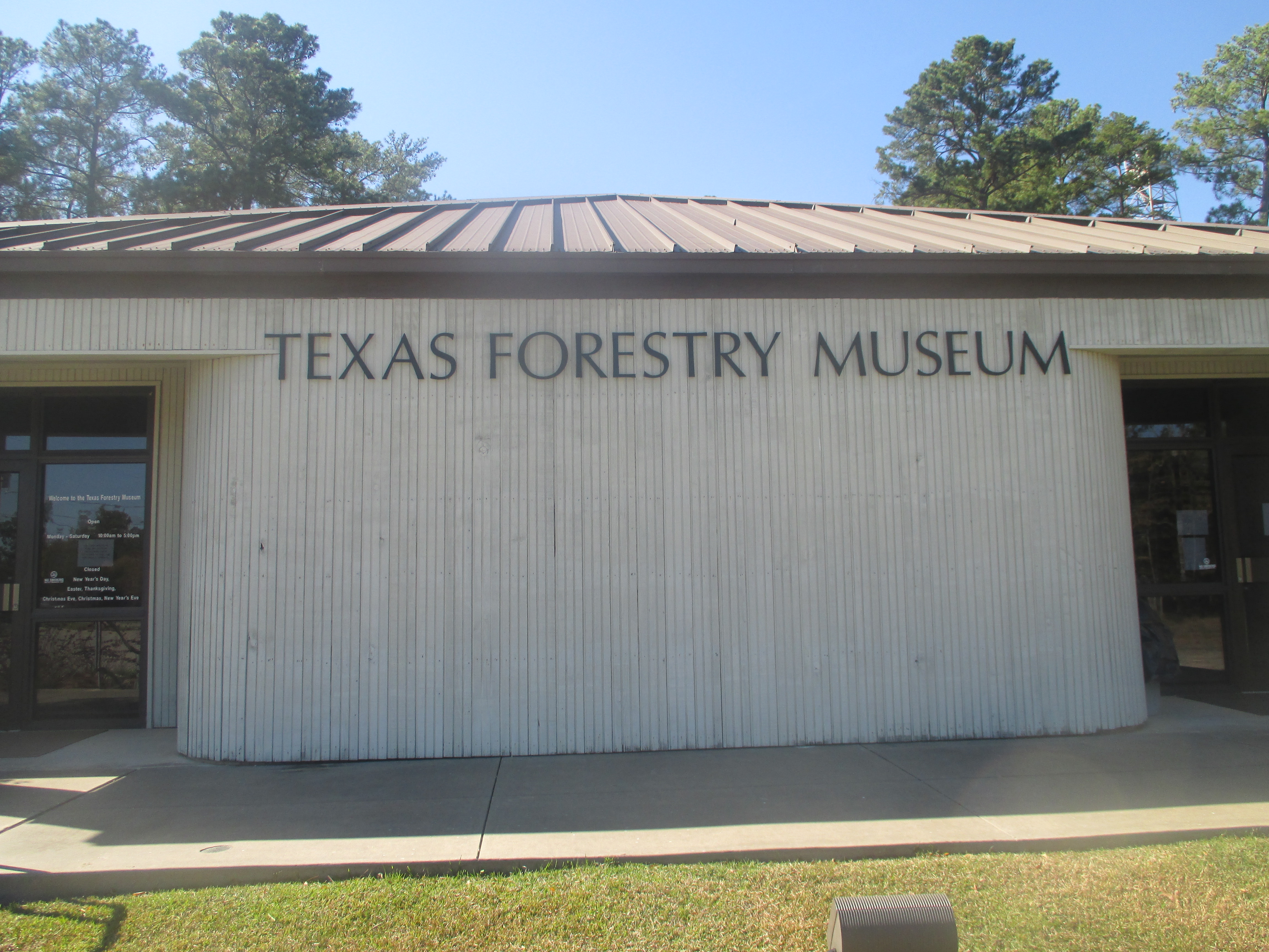 I took photo with Canon camera of Texas Forestry Museum in Lufkin, TX.